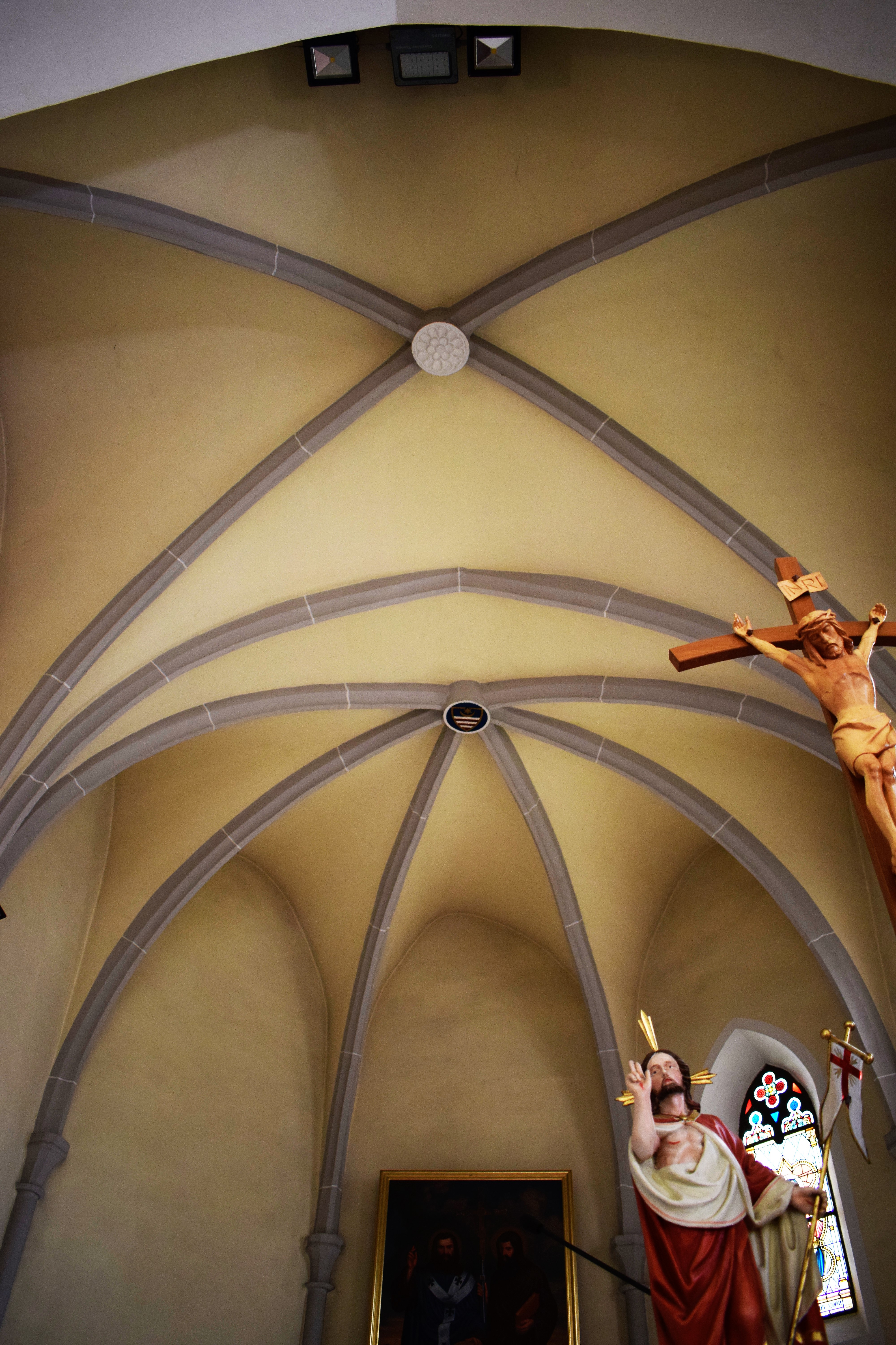 cross vault